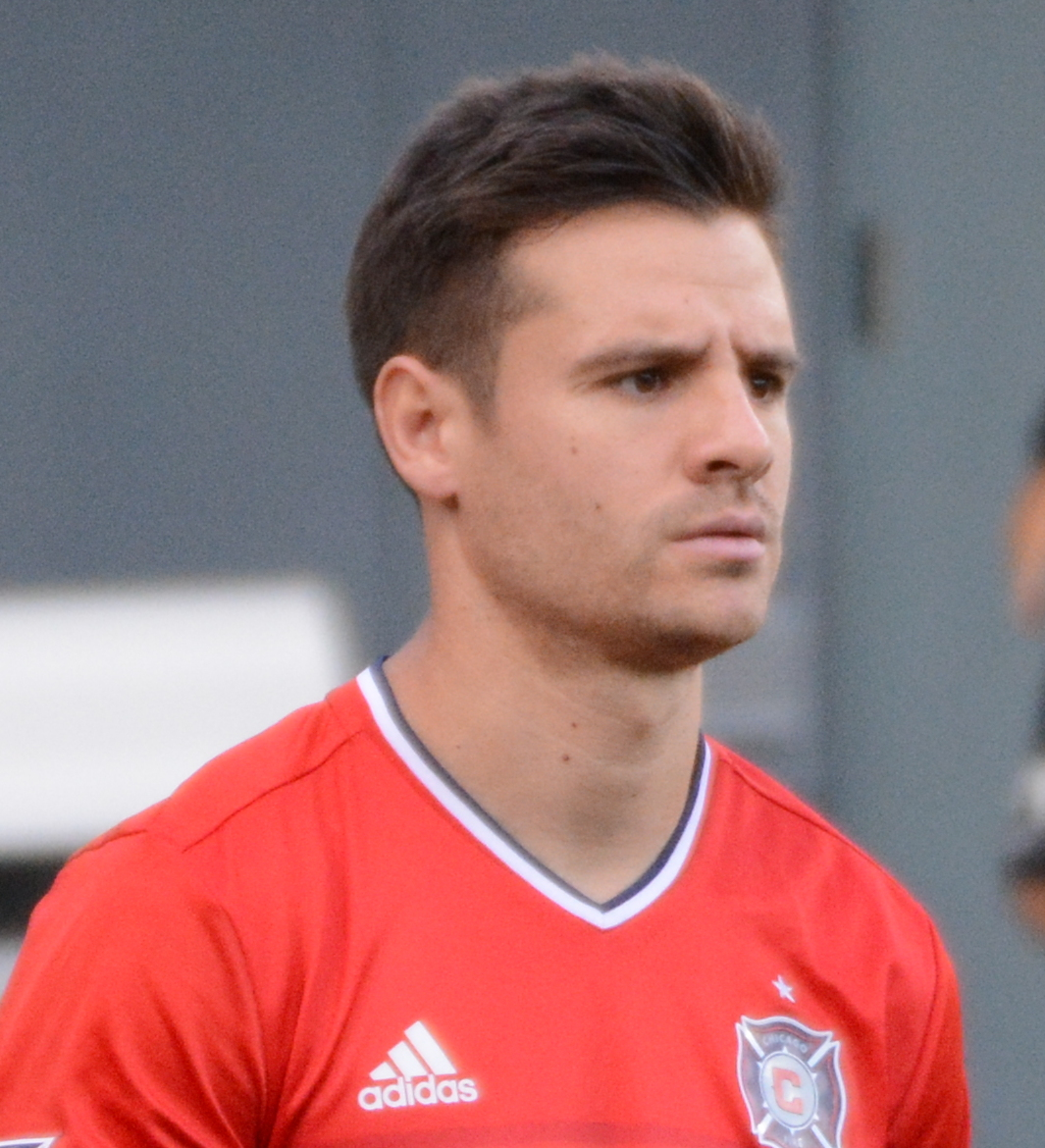 Taken at a U.S. Open Cup match between FC Cincinnati and Chicago Fire SC at Nippert Stadium in Cincinnati, Ohio on June 28, 2017.